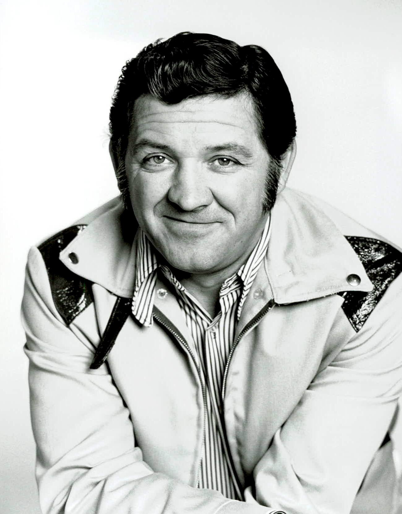 Photo of George Lindsey from a 1973 television special The Orange Blossom Special.